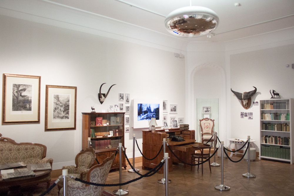 Memorial_room_of_Count_Zsigmond_Széchenyi,_hunter-writer,_Hungarian_Hunting_Museum,_Hatvanlabel QS:Len,"Memorial_room_of_Count_Zsigmond_Széchenyi,_hunter-writer,_Hungarian_Hunting_Museum,_Hatvan" label QS:Lhu,"Széchenyi Zsigmond emlékszoba, hatvani Magyar Vadászati Múzeum"